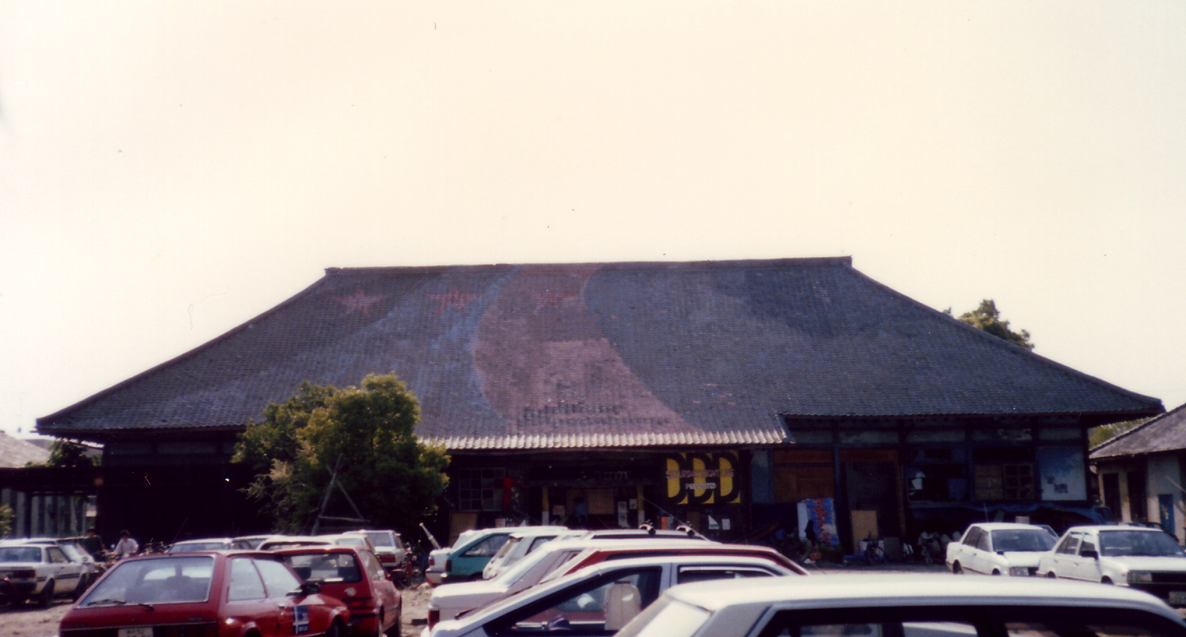 Seibu Kodo (Auditorium) of Kyoto University.